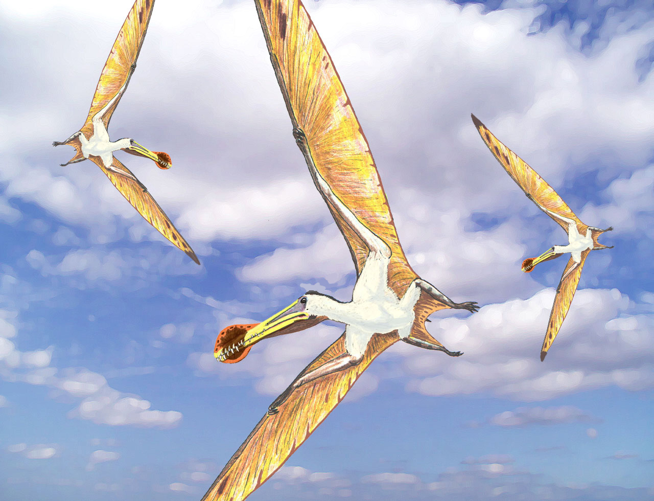 Ornithocheirus mesembrinus (syn. Tropeognathus), a pterodactyloid pterosaur from the Lower Cretaceous of Brasilia (Santana Formation)